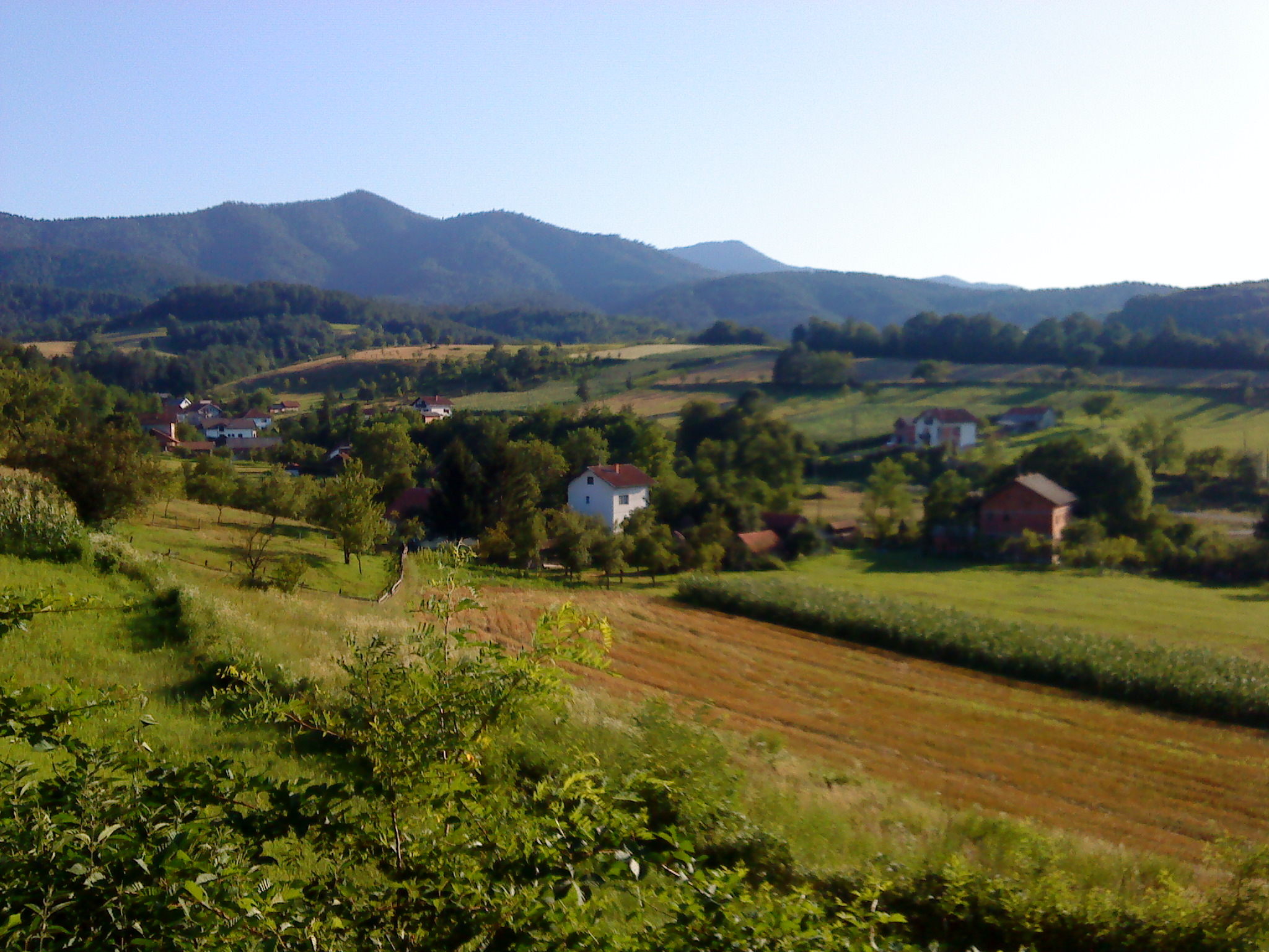 View of Mt Ozren from the village of Sockovac.